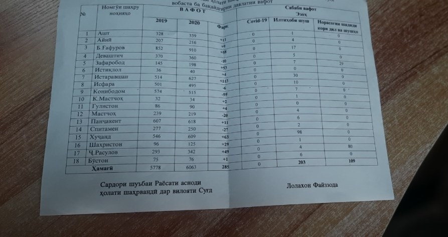 Registry office of Sughd region on deaths statistics for the first half of 2020